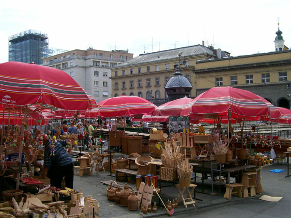 Dolac, market place in Zagreb